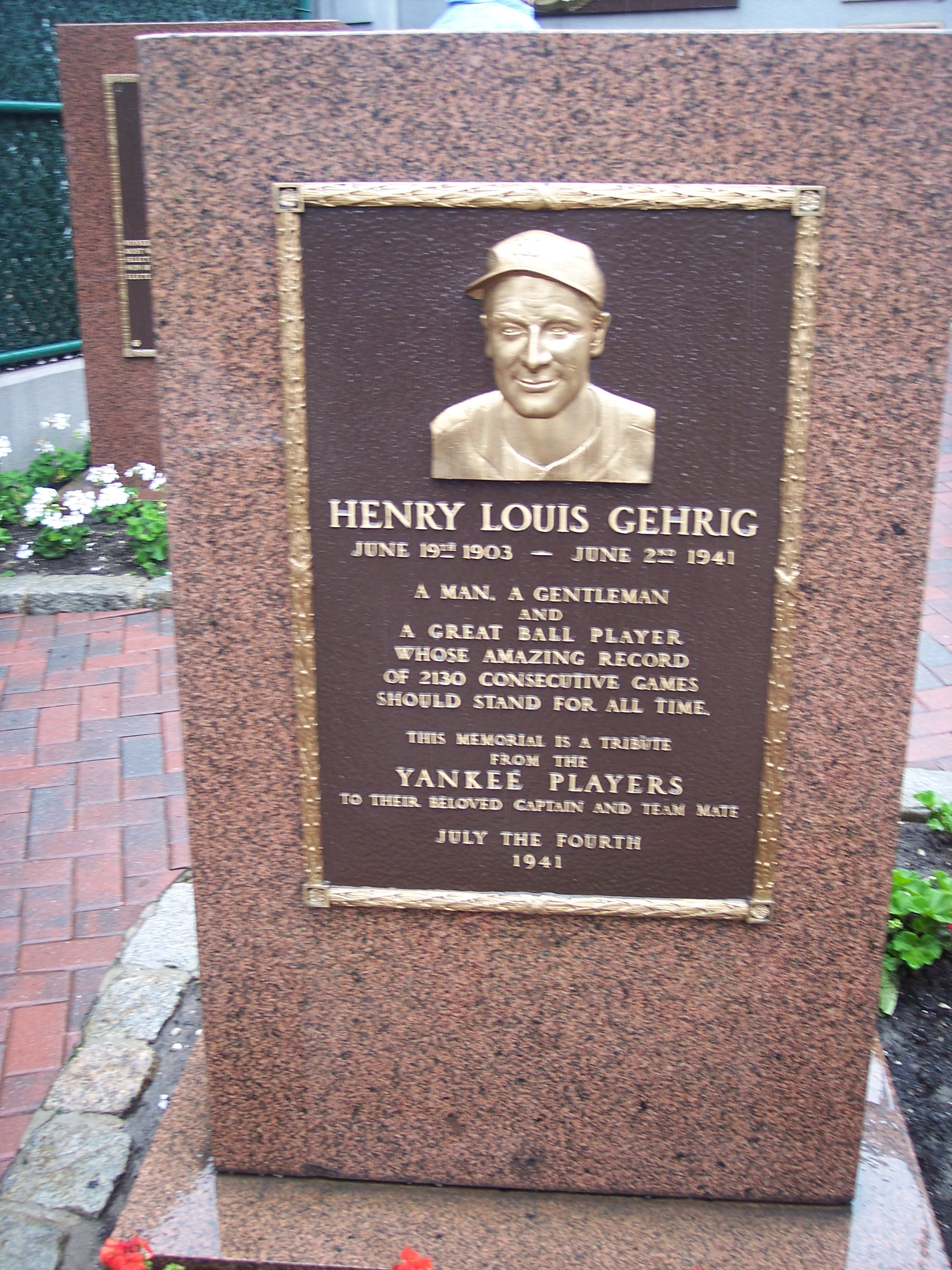 Source: I, the Silent Wind of Doom took the picture on a tour of Yankee Stadium 03:15, 14 November 2006 . . Silent Wind of Doom . . 2142×2856 (1,690,076 bytes)